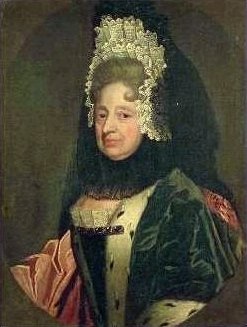 Sophie of Hanover, Dowager Electress of Hanover and Heiress presumptive to the English throne